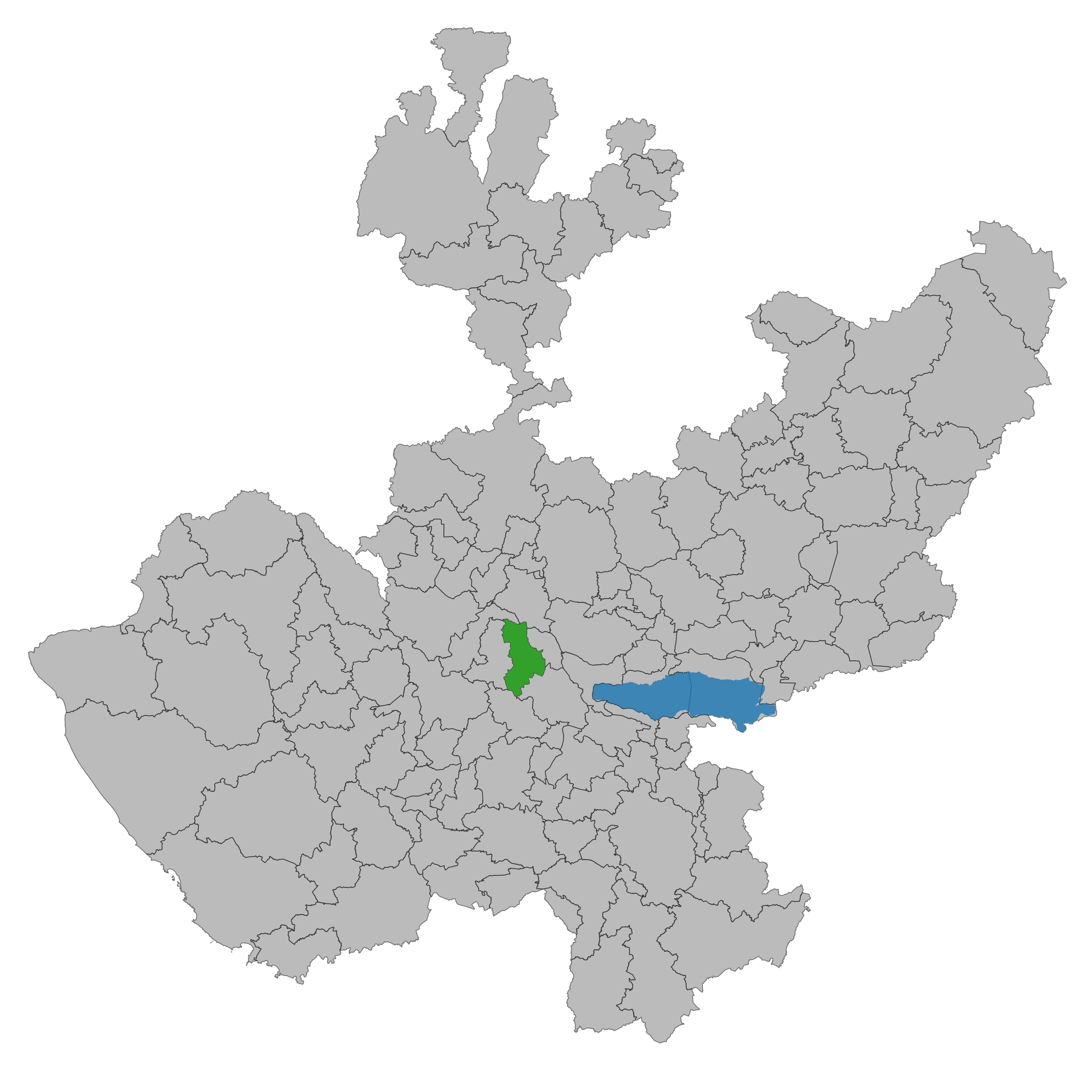 Municipality of Jalisco. Prepared with the software QGIS version 2.8.2 Wien & with information of SCINCE 2010 version 05/2013